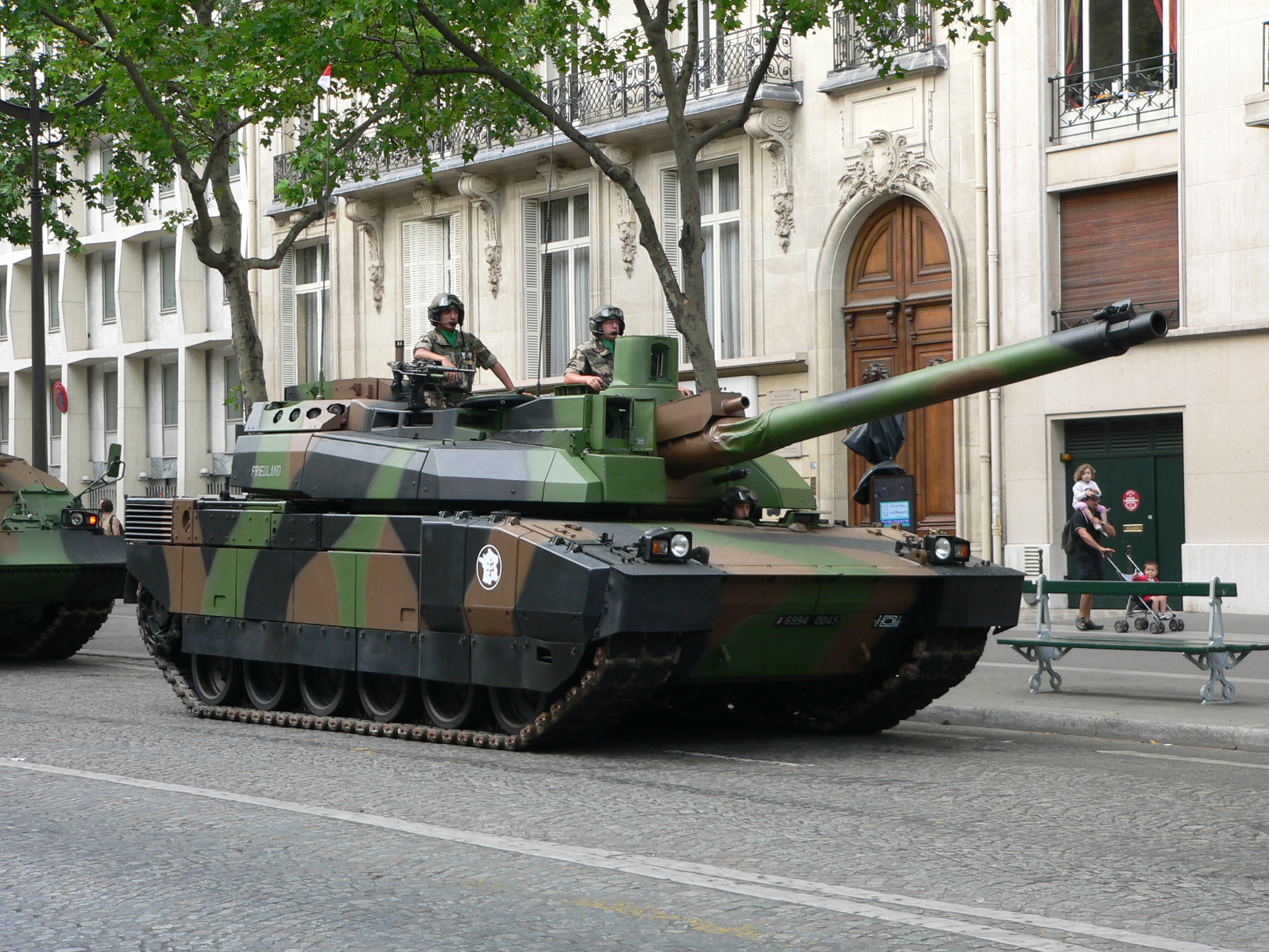 Leclerc main battle tank Military parade, Avenue des Champs-Élysées, 14 July 2006